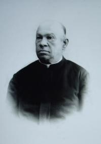 József Borovnyák (Jožef Borovnjak), slowenian writer in Hungary, priest of Church Apátistvánfalva and Grad, Slovenia